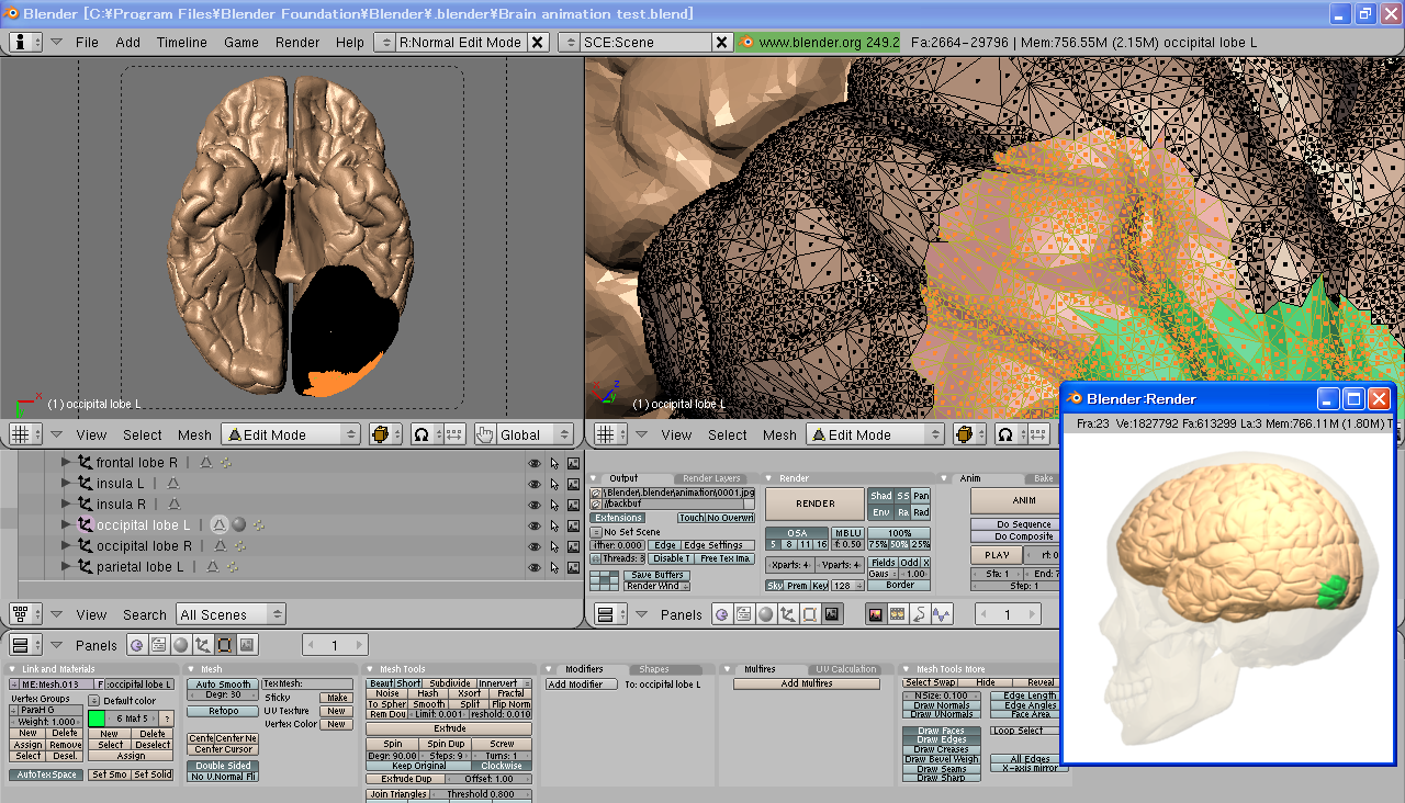 Screenshot. Manipulating brain polygon data of BodyParts3D with Blender.